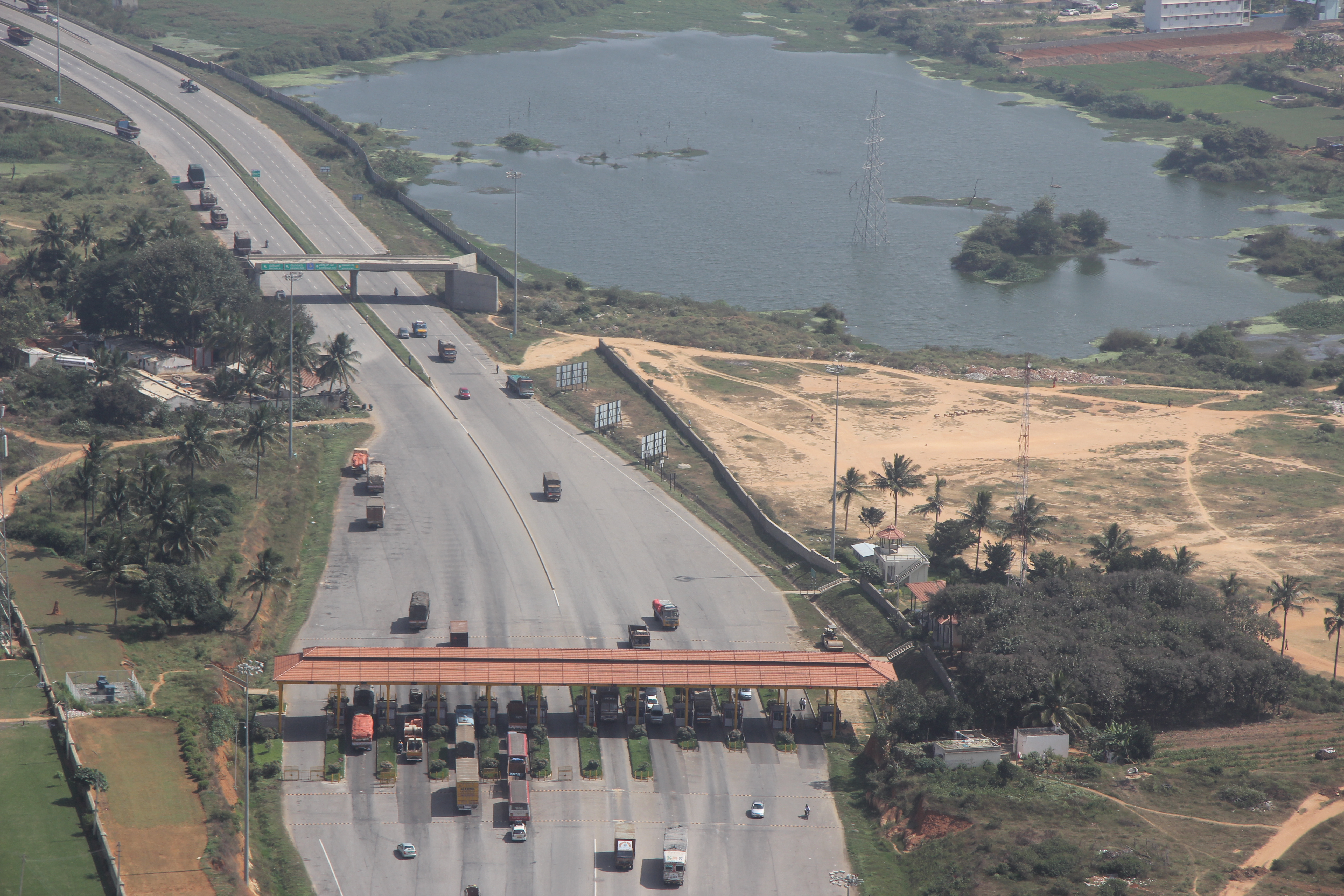 Nice Road - Toll Booth